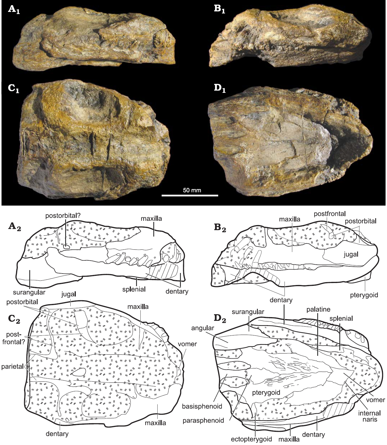 Skull of the plesiosauroid Lusonectes sauvagei gen et sp. nov. (MG33) from the Toarcian of Portugal, in right lateral (A), left lateral (B), dorsal (C), and ventral (D) views.